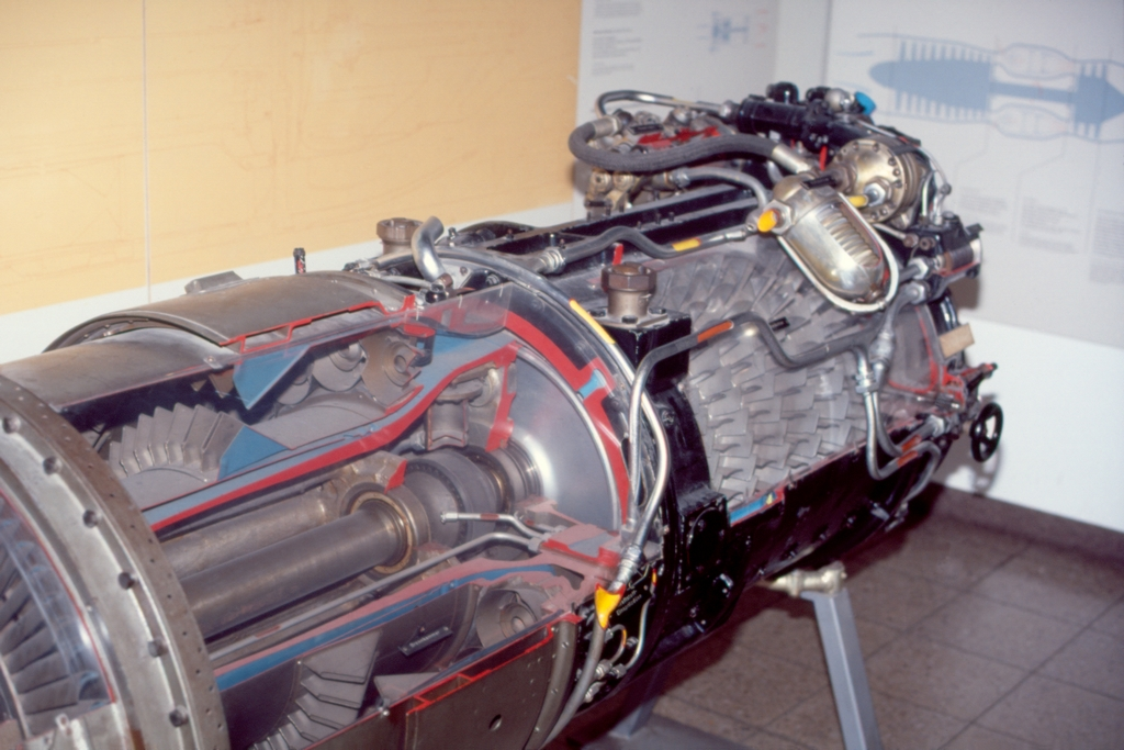 Compressor, combustion chamber and turbine of the german BMW 003 turbojet engine.